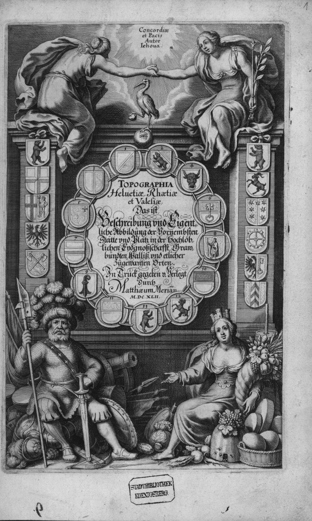 This is a scan of the historical document